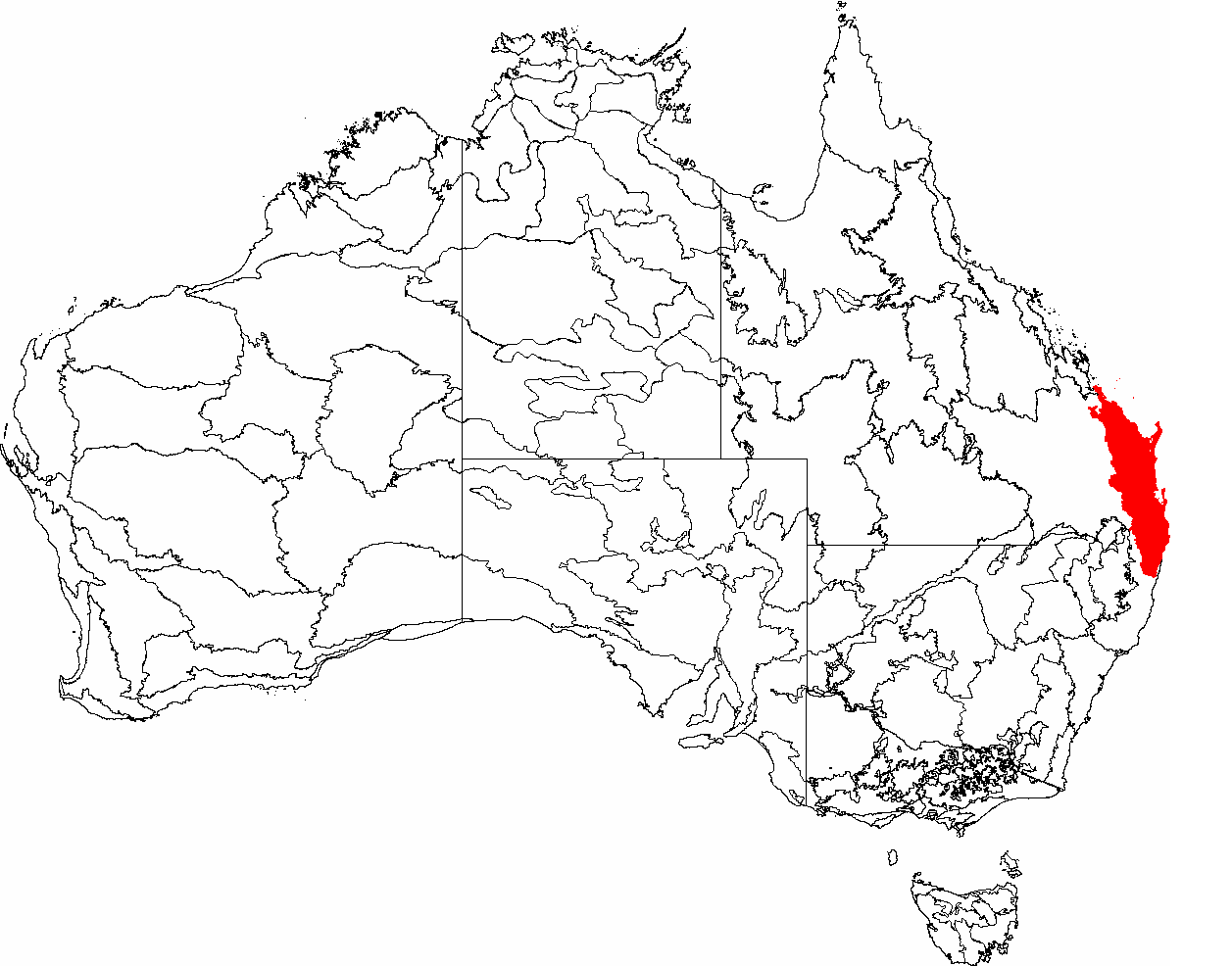 This is a map of the Interim Biogeographic Regionalisation of Australia (IBRA), with state boundaries overlaid. The South Eastern Queensland region is shown in red.